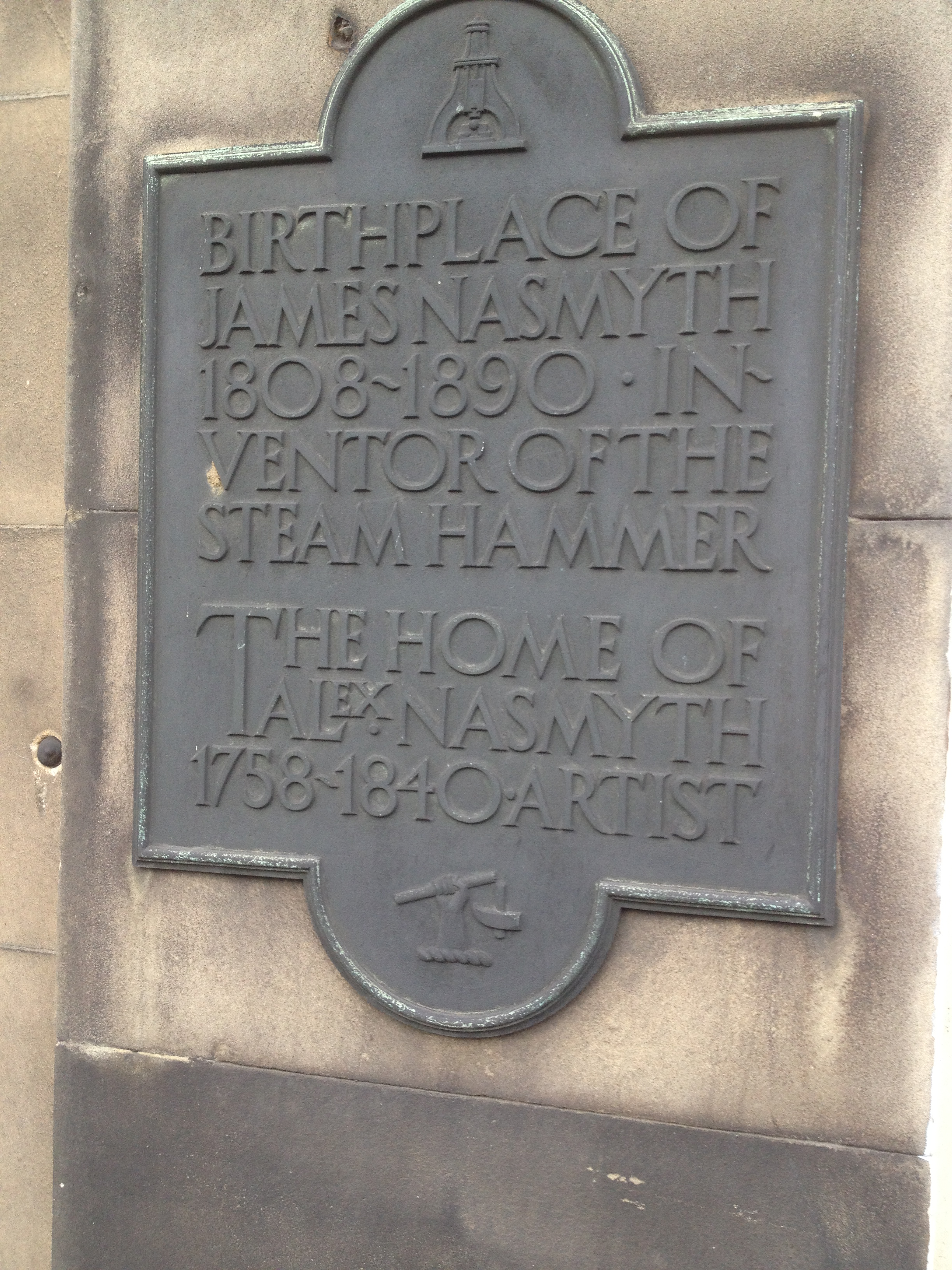 York Place 47, Edinburgh, Plaque to commemorating Alexander Nasmyth lived here and James Nasmyth was born here